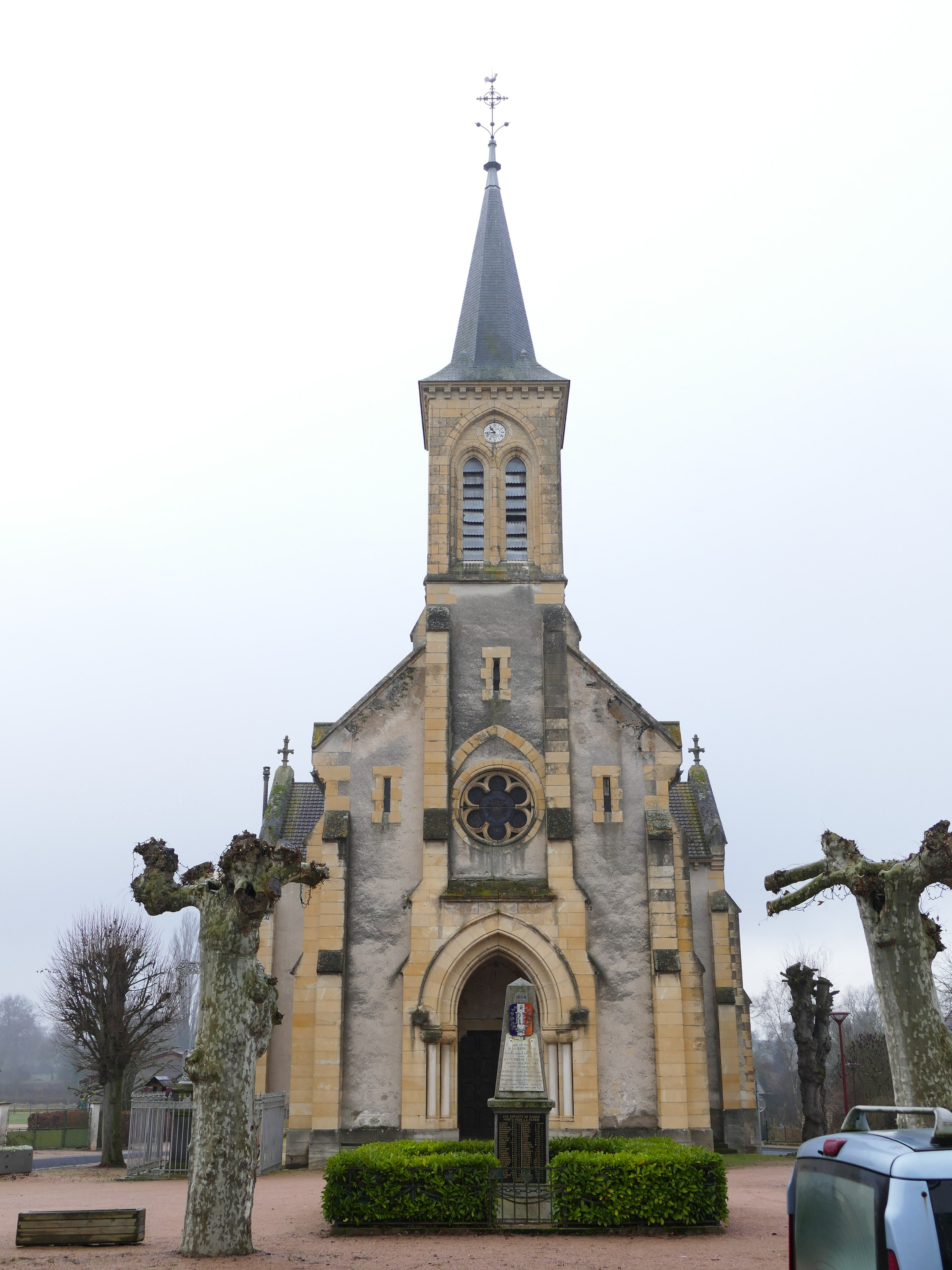 Saint-Peter-and-Saint-Martin's church in Cindré (Allier, Auvergne, France).